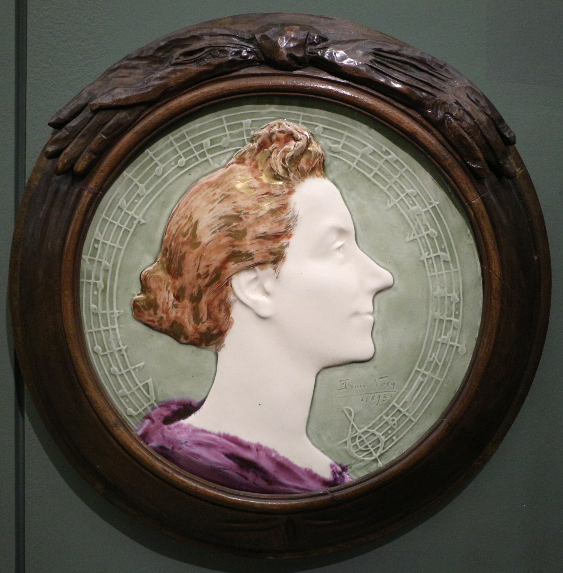 Decorative arts in the Musée d'Orsay